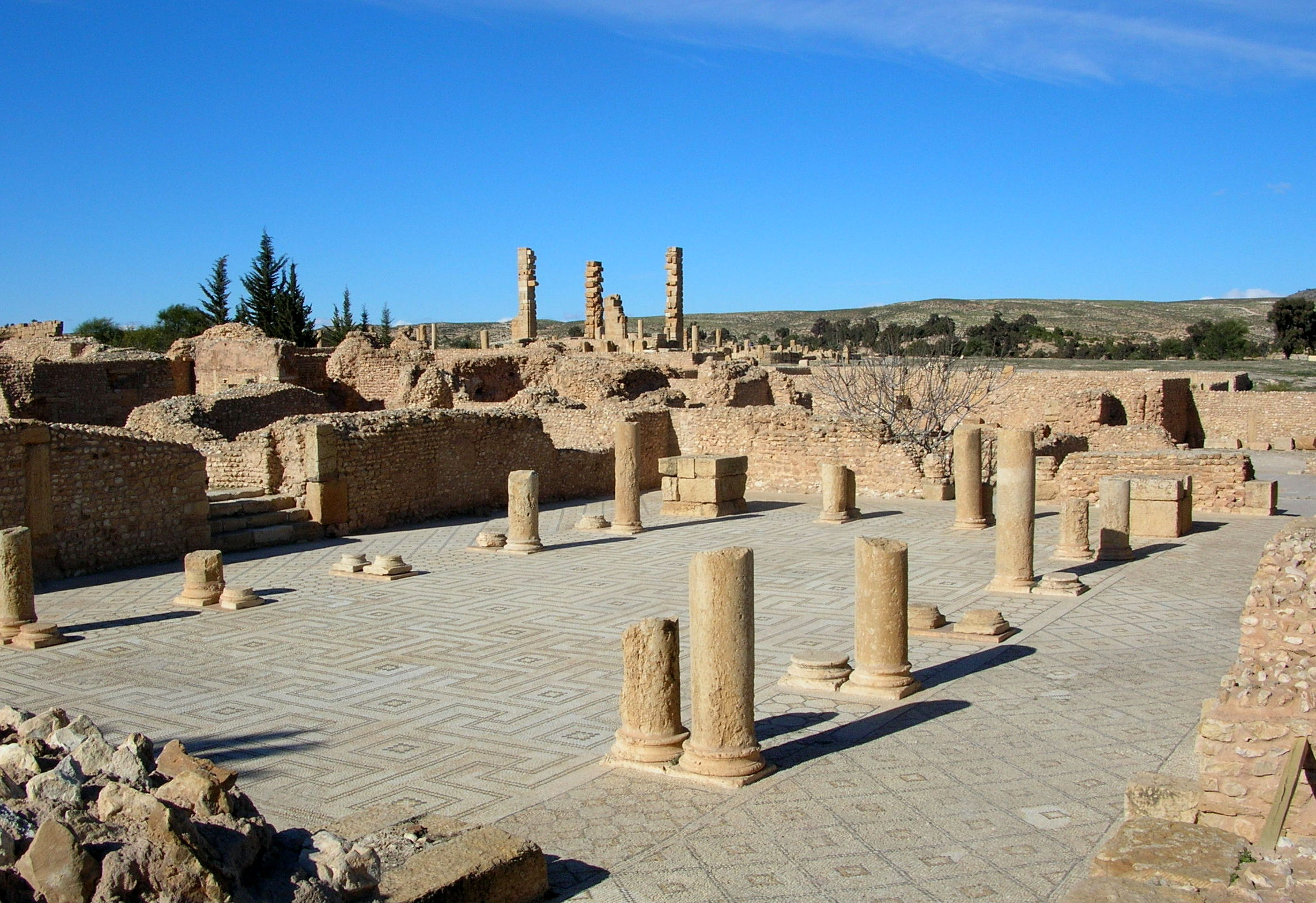 Great Baths of Sbeitla, Tunisia